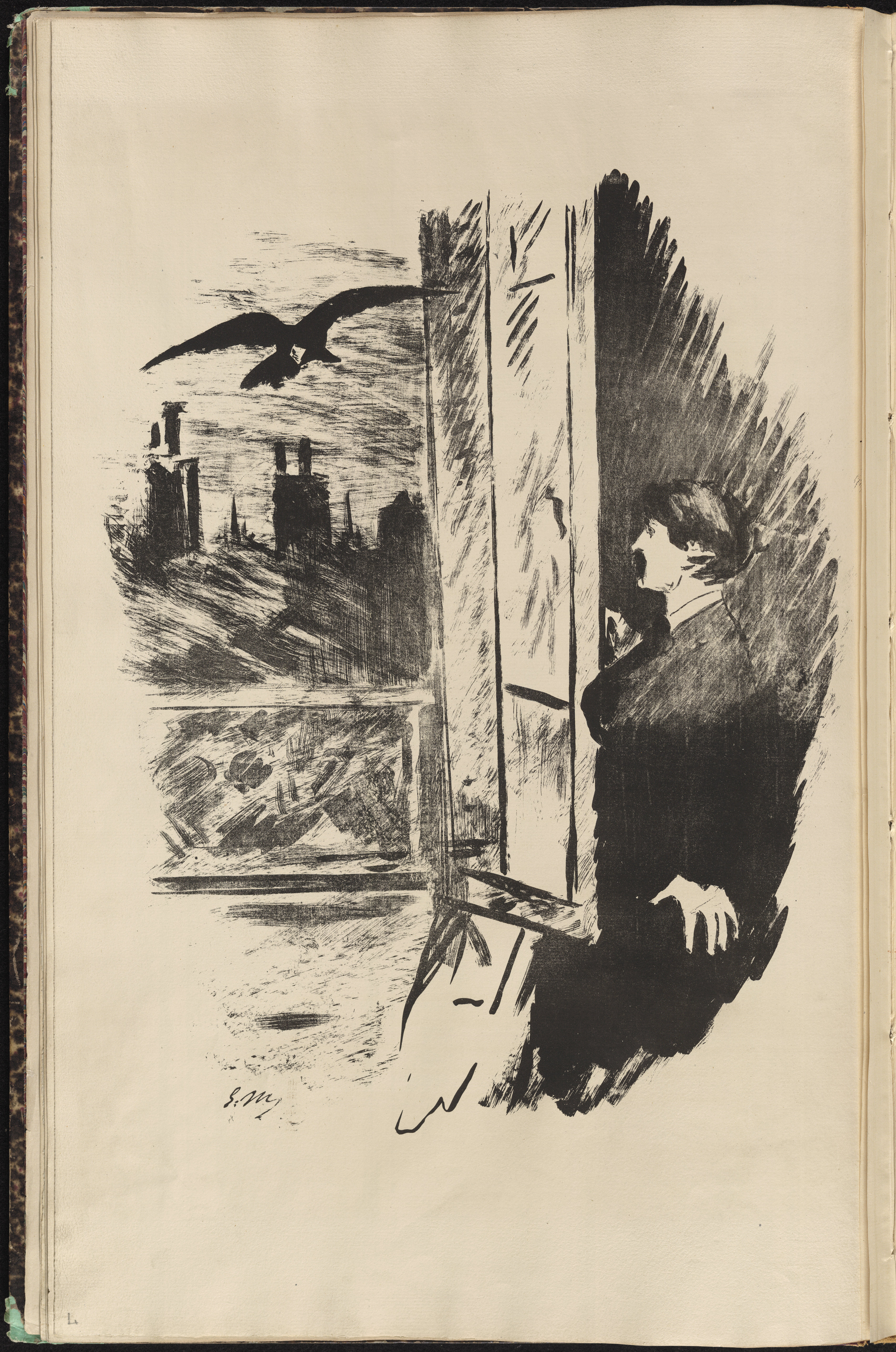 Illustration by Édouard Manet for a French translation by Stéphane Mallarmé of Edgar Allan Poe's "The Raven". Part 2 of 4 full page plates (two smaller illustrations at beginning and end omitted).